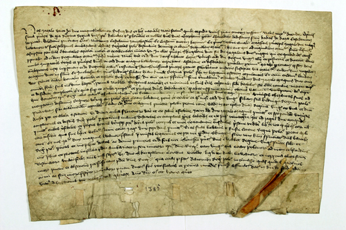 Union of Krewo